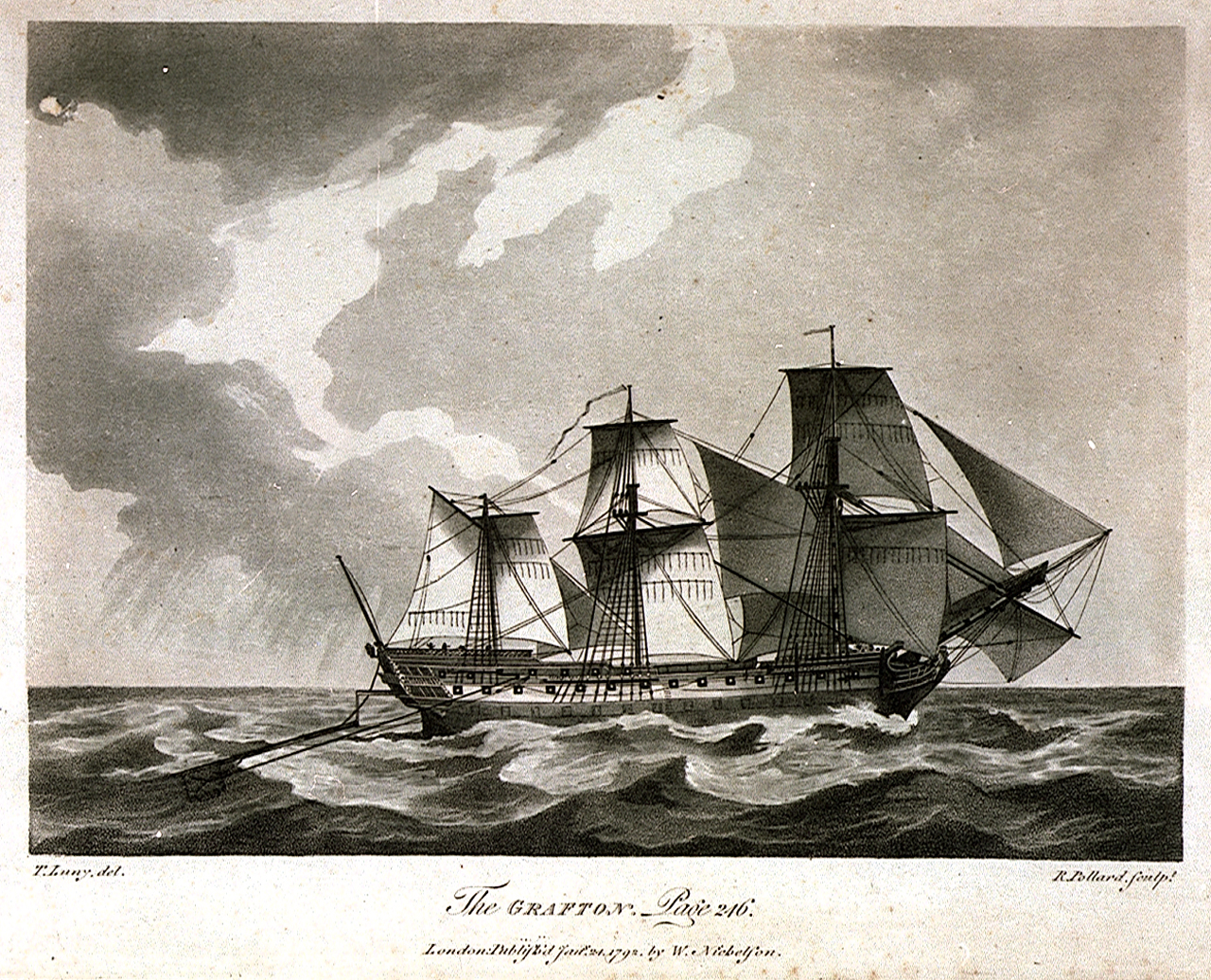 The Grafton. Page 246 Technique includes engraving.